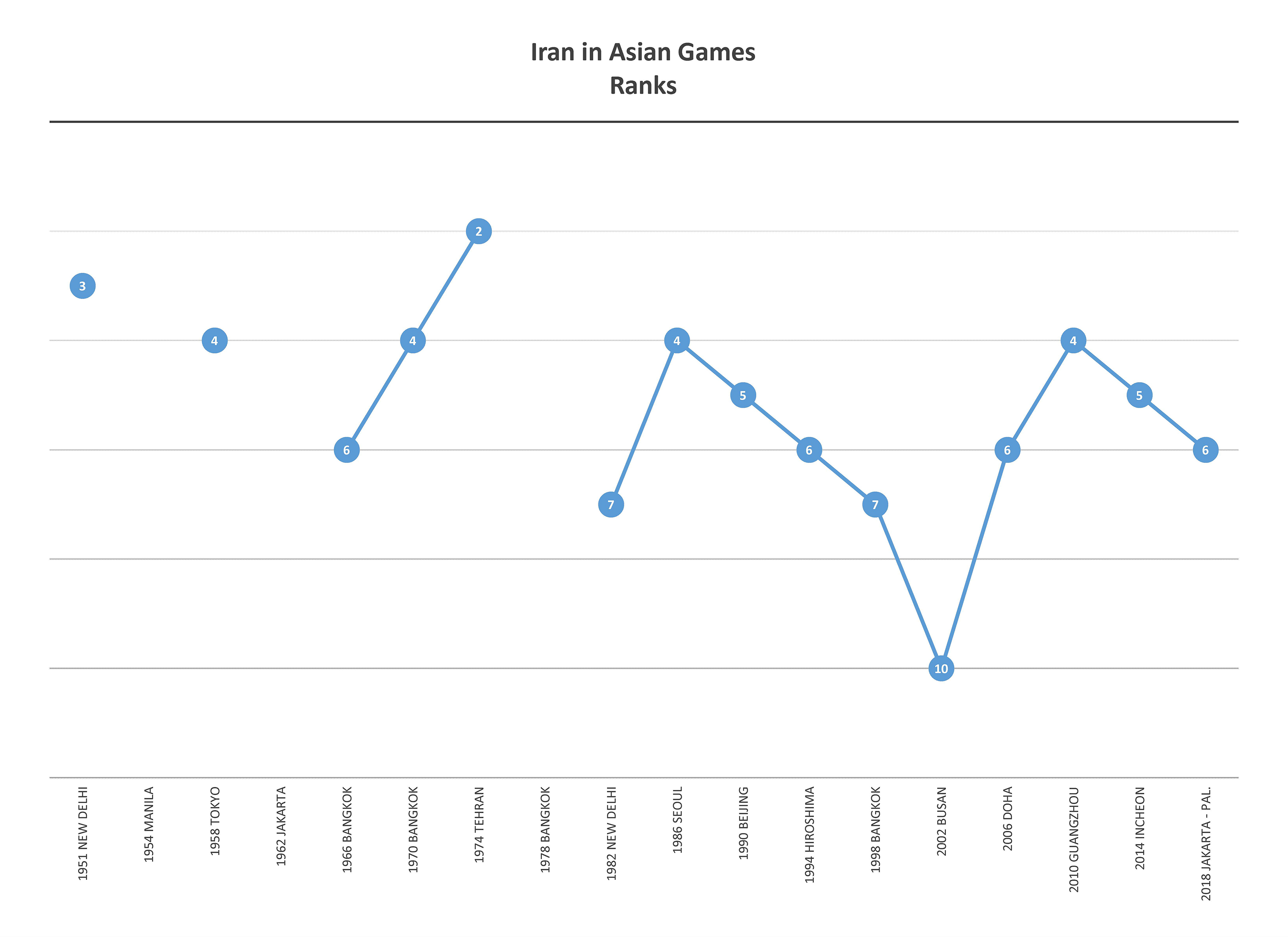 The chart is showing the ranks of Iran in various Asian games